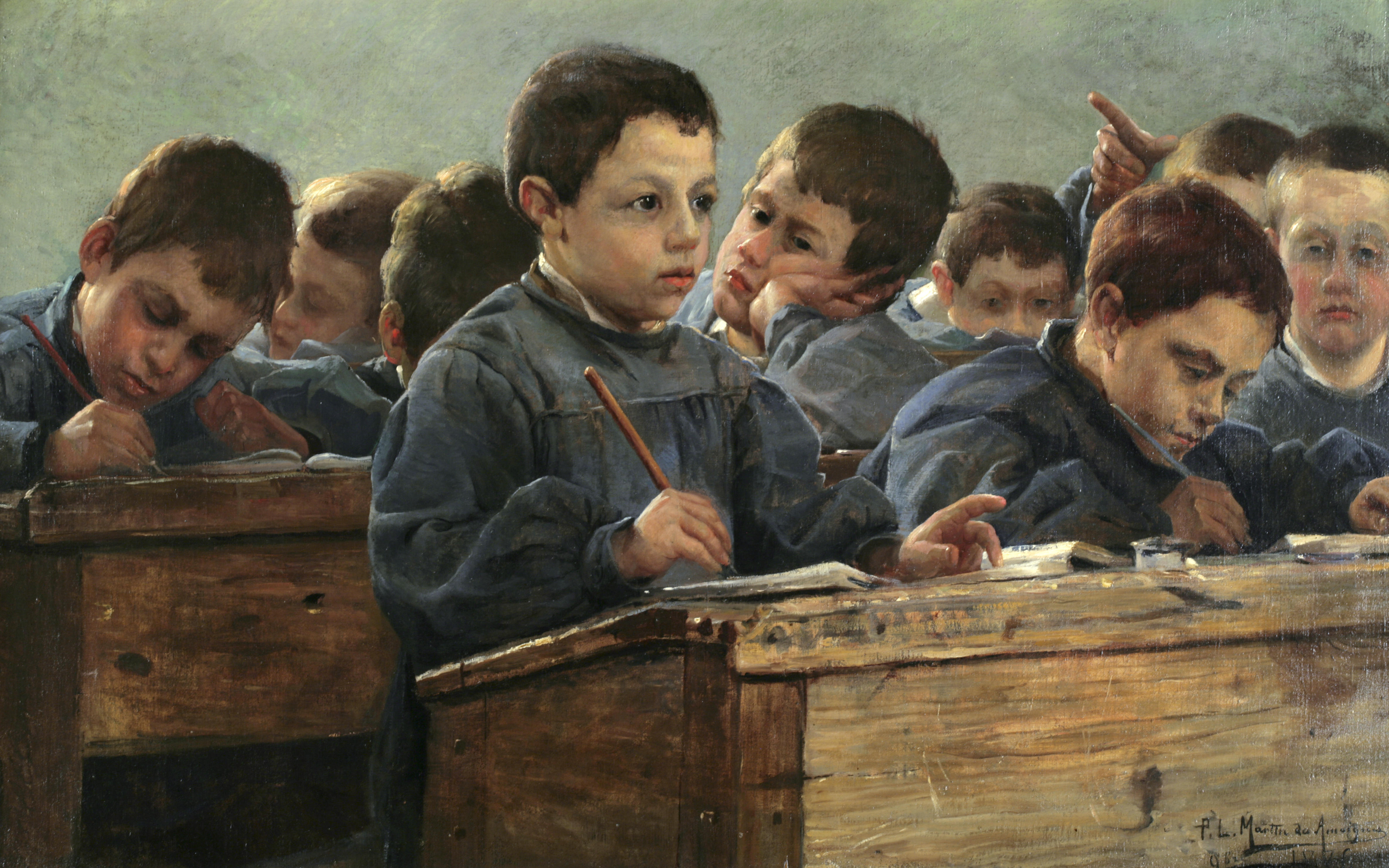 In the classroom